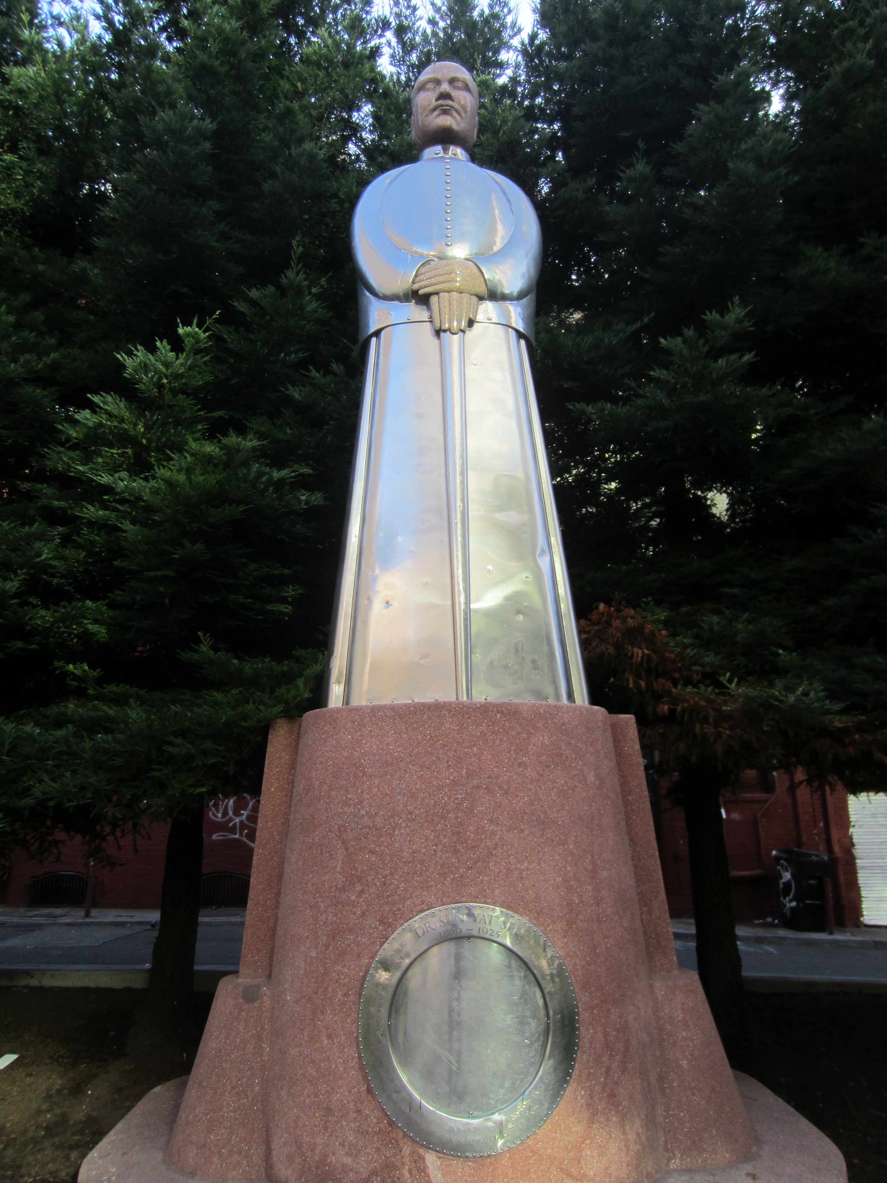 "Sun Yat-sen" — 1937 sculpture by Benny Bufano Located in Saint Mary's Square, Chinatown, San Francisco, California. The stainless steel sculpture was a WPA—Federal Art Project commission.